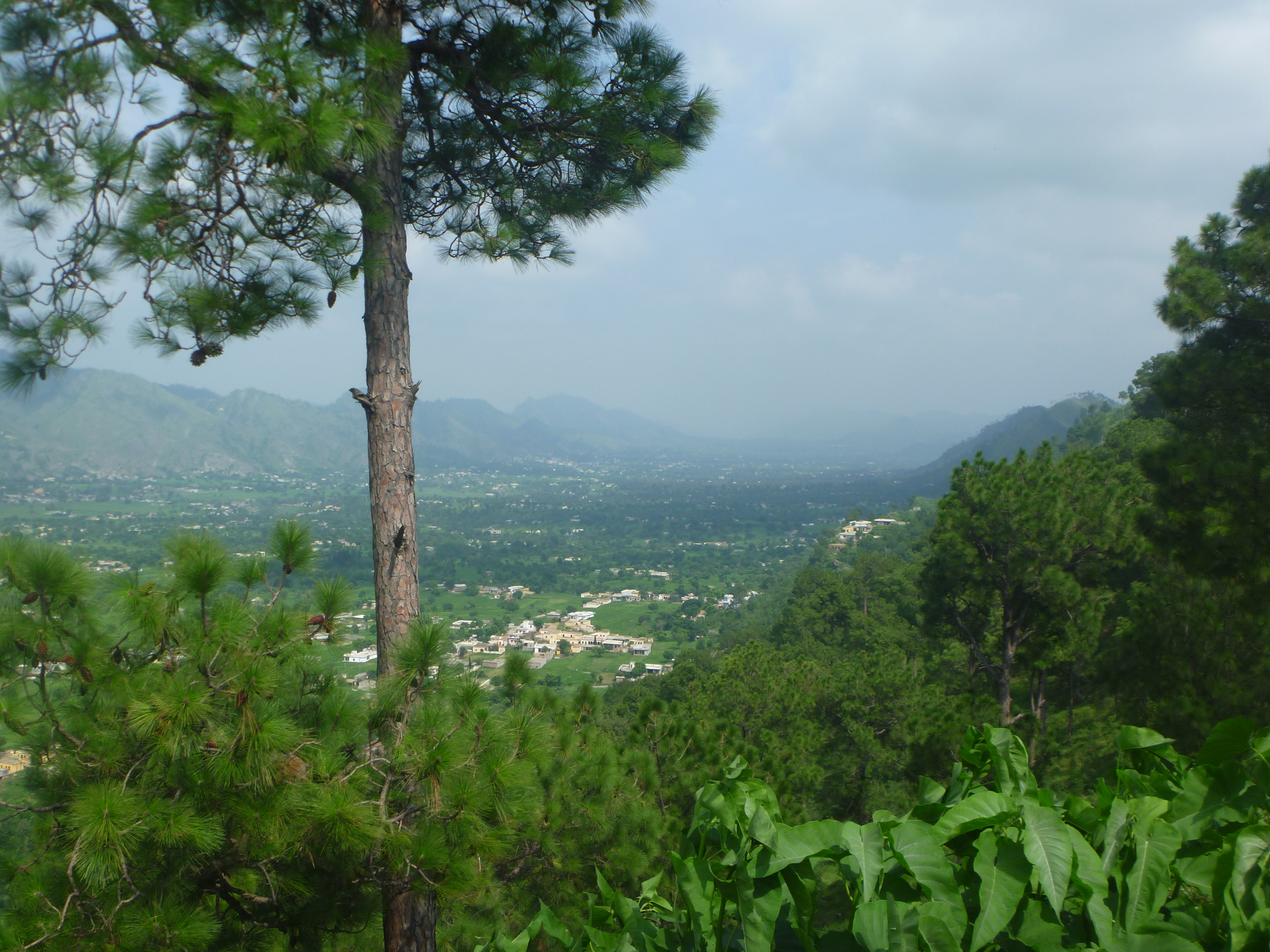 Picturesque view of Samahni valley near Kadyala